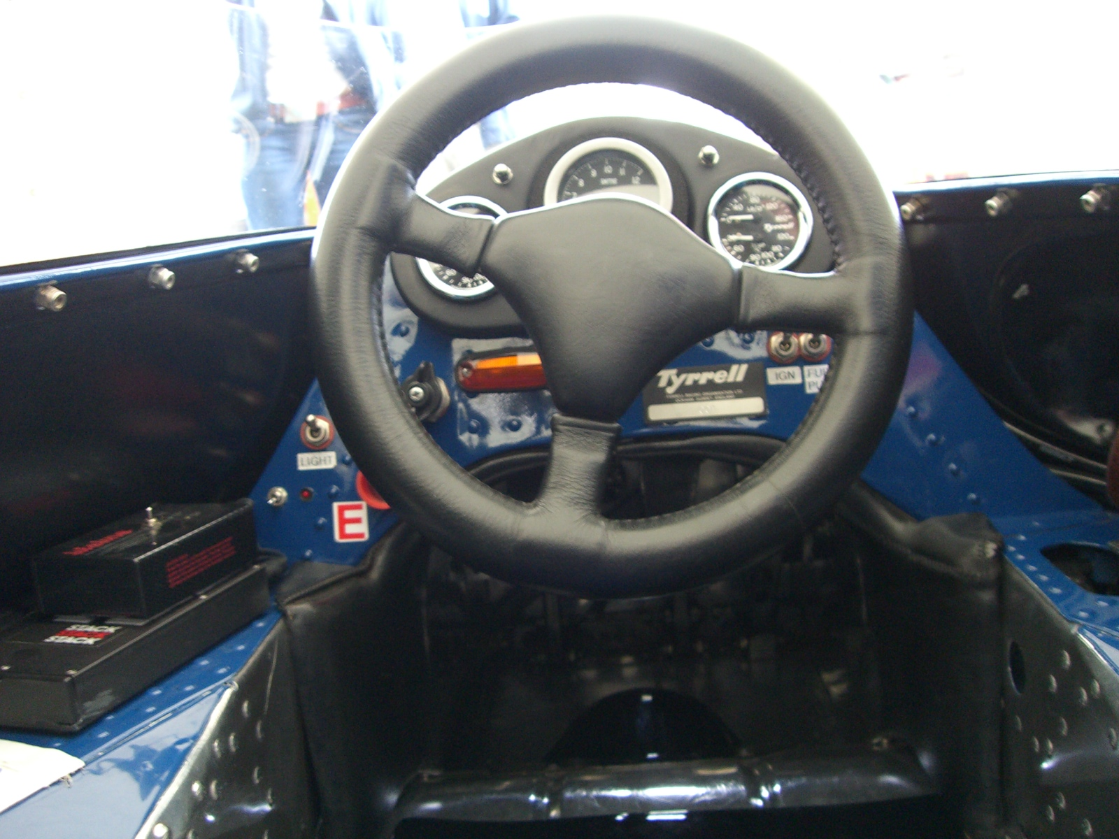 1970 Tyrrell-Cosworth 001 Cockpit